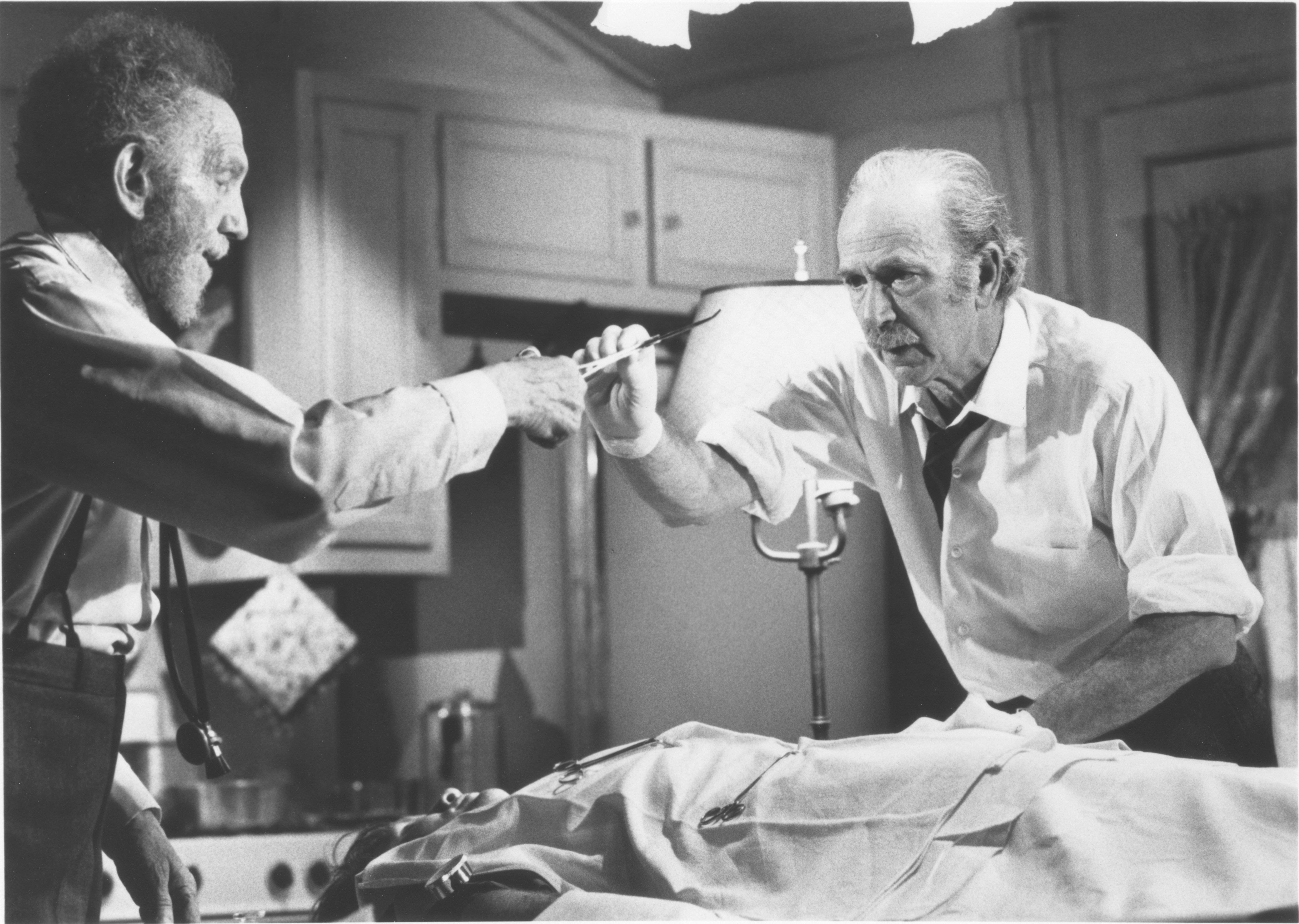 Publicity photograph taken on the production set of The Sad and Lonely Sundays, a second unsold pilot of the abandoned medical drama television project The Oath. Pictured were Sam Jaffe (left) and Jack Albertson, who appeared in Willy Wonka and the Chocolate Factory. In the press release information, this presentation was supposed to air on Thursday, August 26, 1976, and Albertson's name was circled.